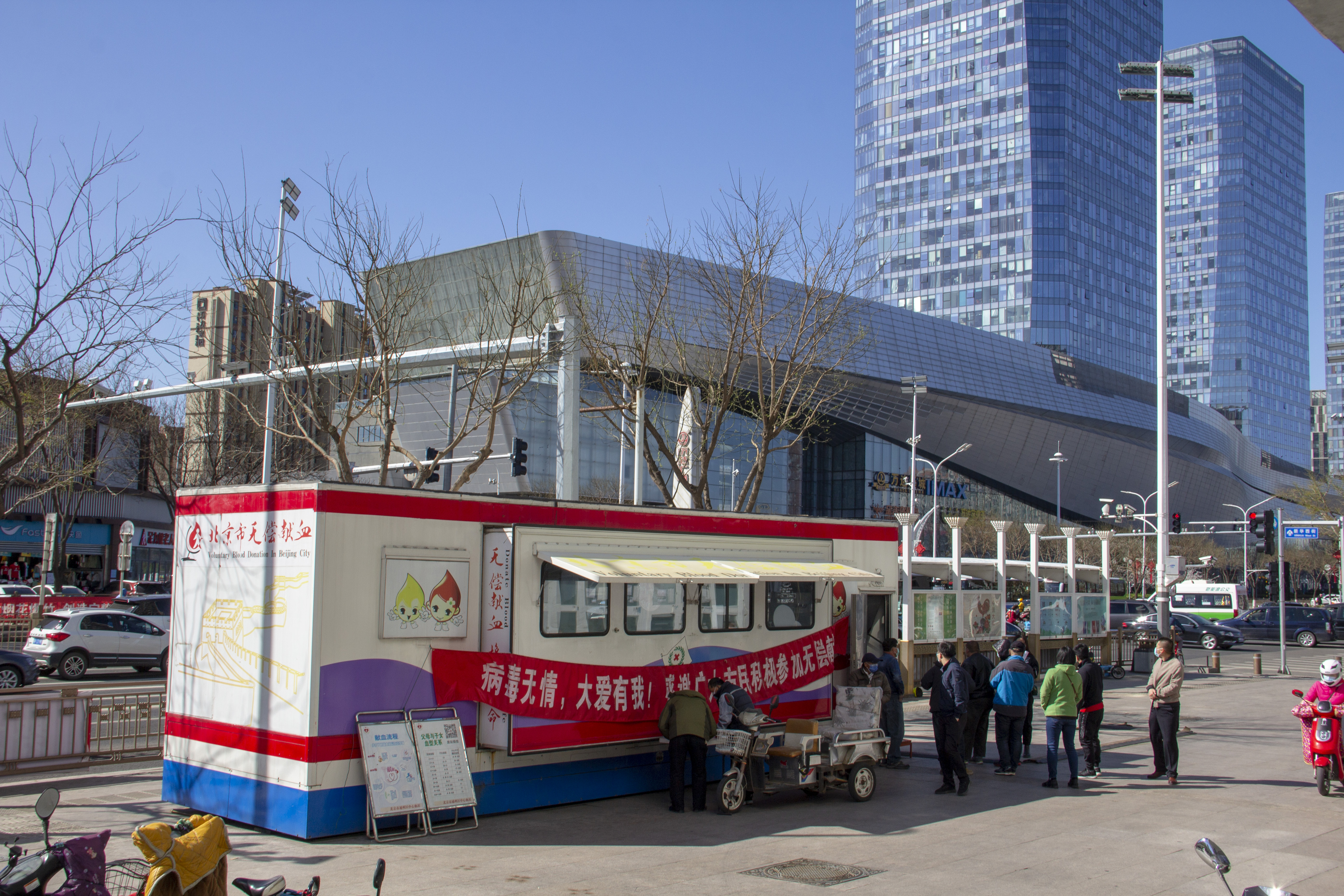 People queuing to donate blood in Tongzhou, Beijing